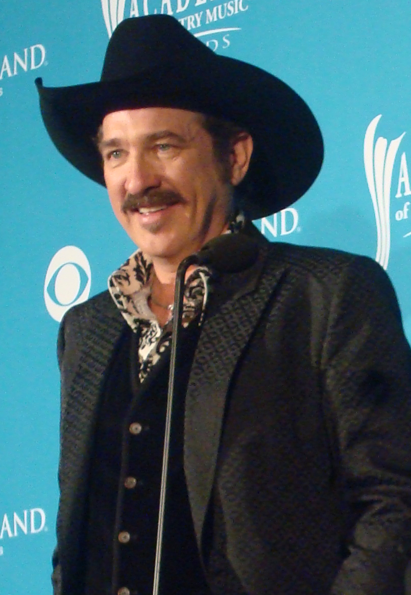 Kix Brooks at the 45th Annual Academy of Country Music Awards.